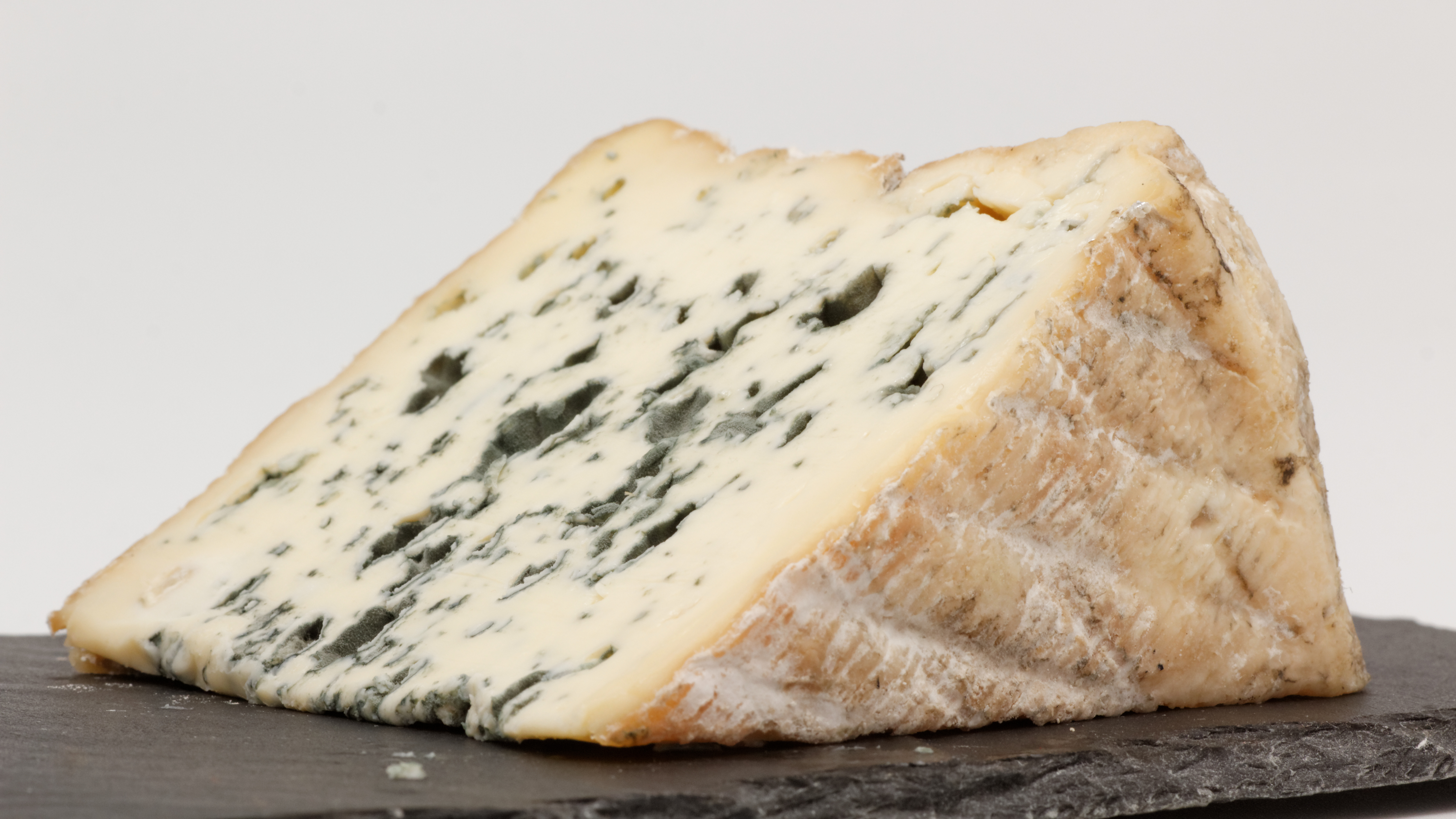 Bleu d'Auvergne